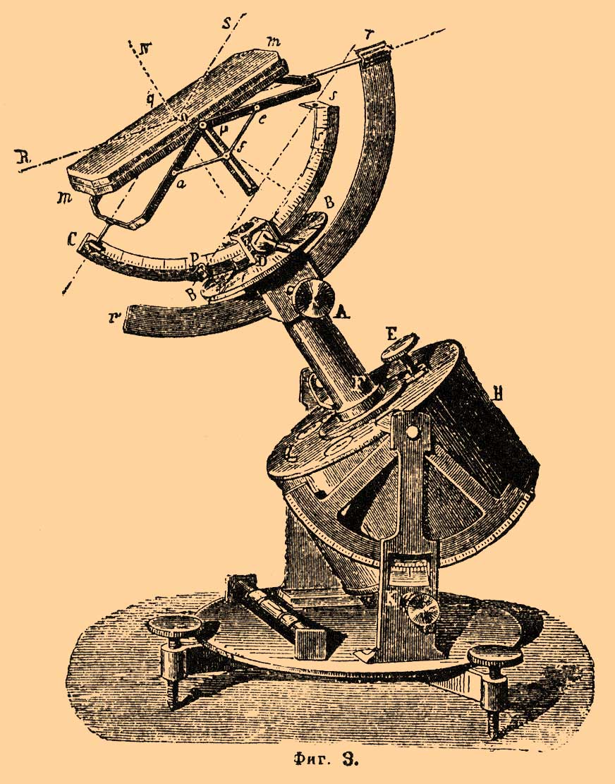 Illustration from Brockhaus and Efron Encyclopedic Dictionary (1890—1907)